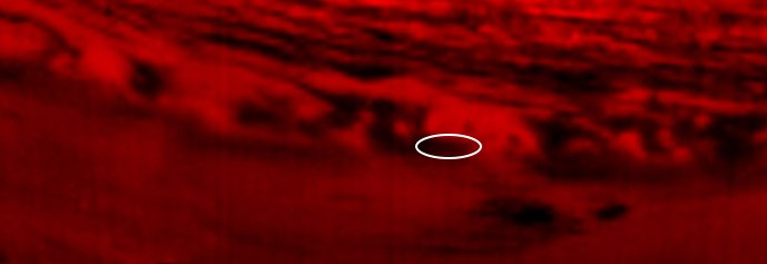 PIA21896: Impact Site: Infrared Image This montage of images, made from data obtained by Cassini's visual and infrared mapping spectrometer, shows the location on Saturn where the NASA spacecraft entered Saturn's atmosphere on Sept. 15, 2017. This view shows Saturn in the thermal infrared, at a wavelength of 5 microns. Here, the instrument is sensing heat coming from Saturn's interior, in red. Clouds in the atmosphere are silhouetted against that inner glow. This location -- the site of Cassini's atmospheric entry -- was at this time on the night side of the planet, but would rotate into daylight by the time Cassini made its final dive into Saturn's upper atmosphere, ending its remarkable 13-year exploration of Saturn. An annotated version of the image marks the approximate location where the spacecraft entered the atmosphere, at 9.4 degrees north latitude, 53 degrees west longitude. The Cassini-Huygens mission is a cooperative project of NASA, the European Space Agency and the Italian Space Agency. JPL manages the mission for NASA's Science Mission Directorate, Washington. The VIMS team is based at the University of Arizona in Tucson. For more information about the Cassini-Huygens mission visit and